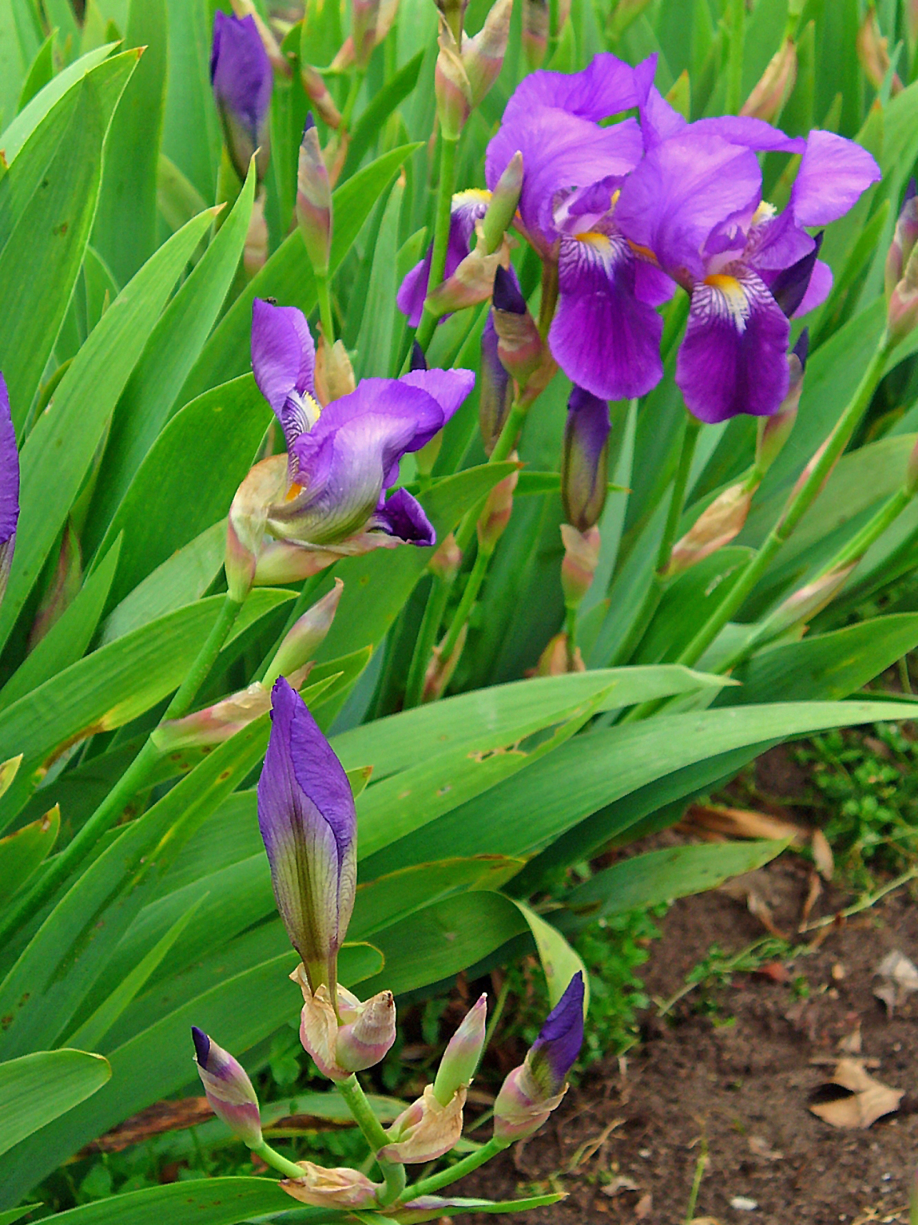 Iris germanica, Iridaceae, German Iris, habitus. The fresh, underground parts are used in homeopathy as remedy: Iris germanica (Iris-g.)